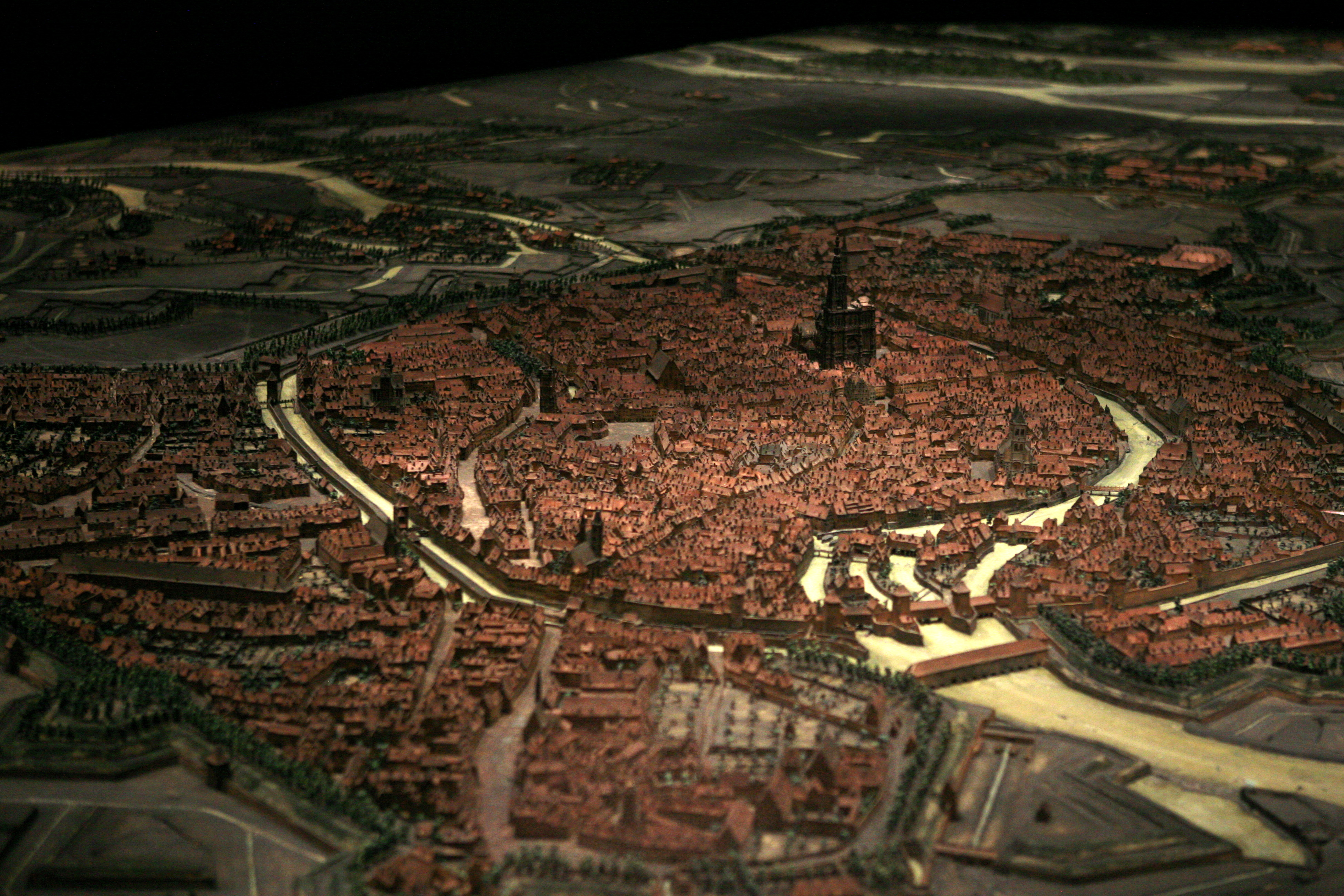 Plan-relief of Strasbourg. Made by engineer Ladevèze on a request of Louis XV. Stored in Paris from 1727 to 1815; taken as prize of war to Berlin until 1901; brought back to Strasbourg in 1902